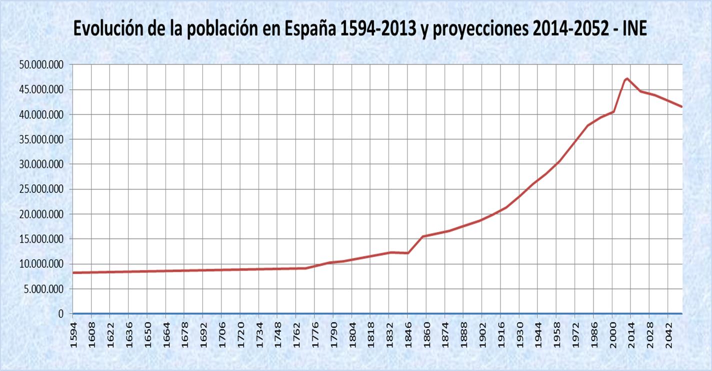 Spain's population (1594–2052). With forecast population trends.